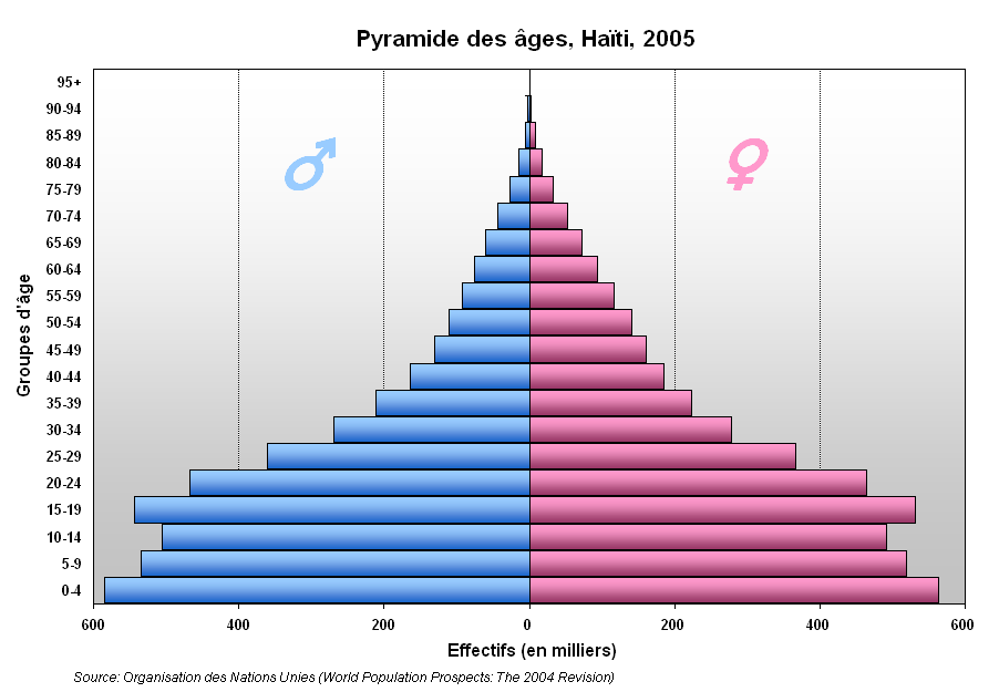 Haiti Population pyramid, 2005